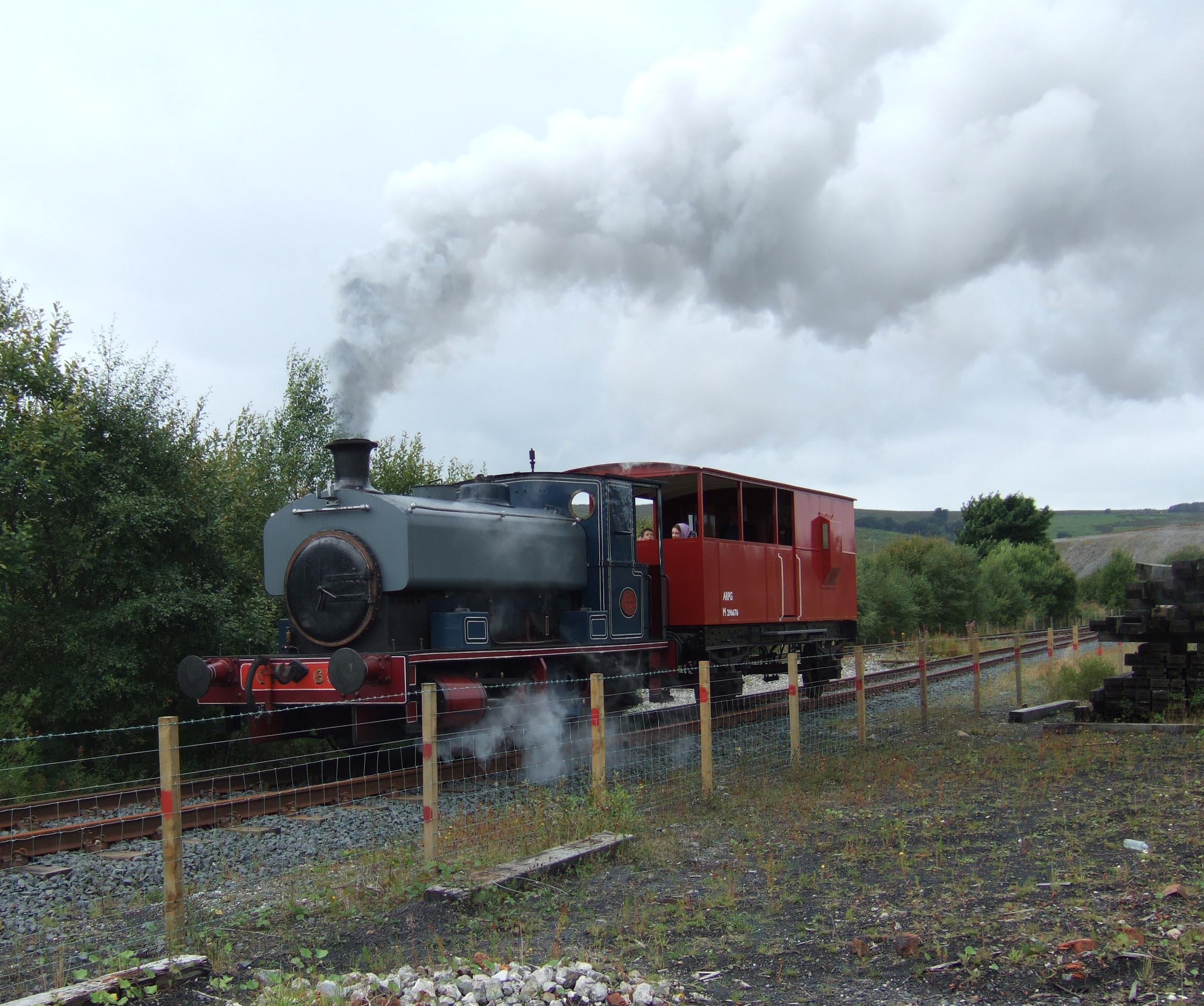 Scottish Industrial Railway Centre Passenger Train at Dunaskin. The steam locomotive is Andrew Barclay 0-4-0ST 1836 of 1926 (from the Brechin Railway). 28th August 2005 Photographer - A.M.Hurrell Camera - Fuji FinePix F10 Modified - Trimmed and file size reduced using Adobe Photoshop 5.0LE